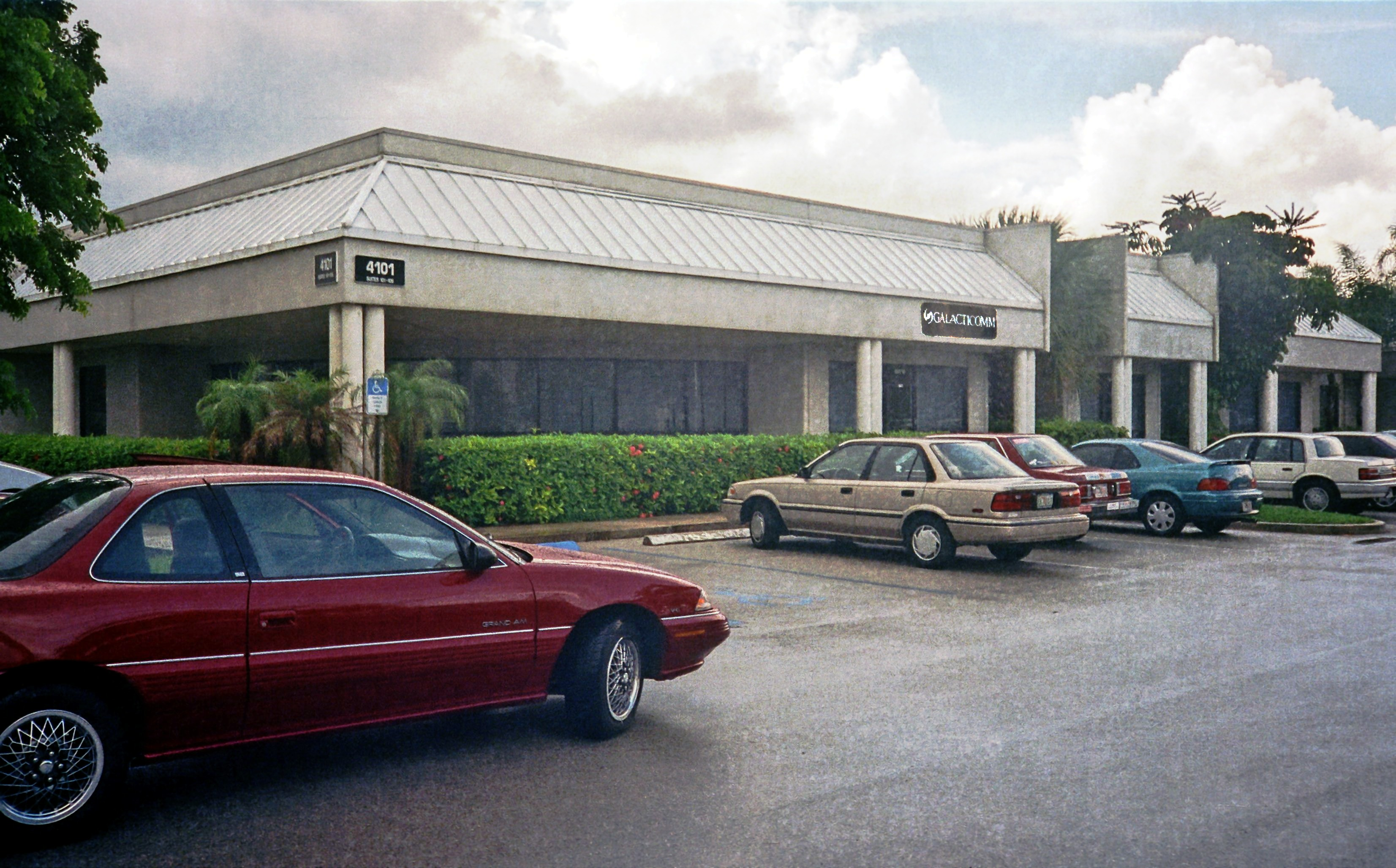 Headquarters of Galacticomm, Inc. in Fort Lauderdale, Florida.